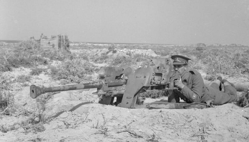 The British Army in North Africa and the Middle East 1942 A captured German 28mm sPzB 41 anti-tank gun, 6 March 1942.